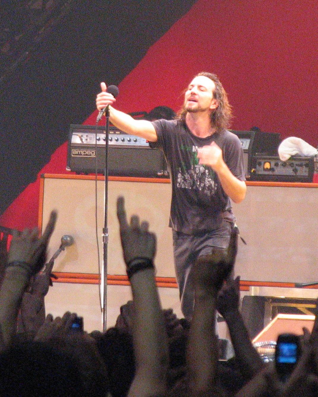 Pearl Jam - September 14, 2006